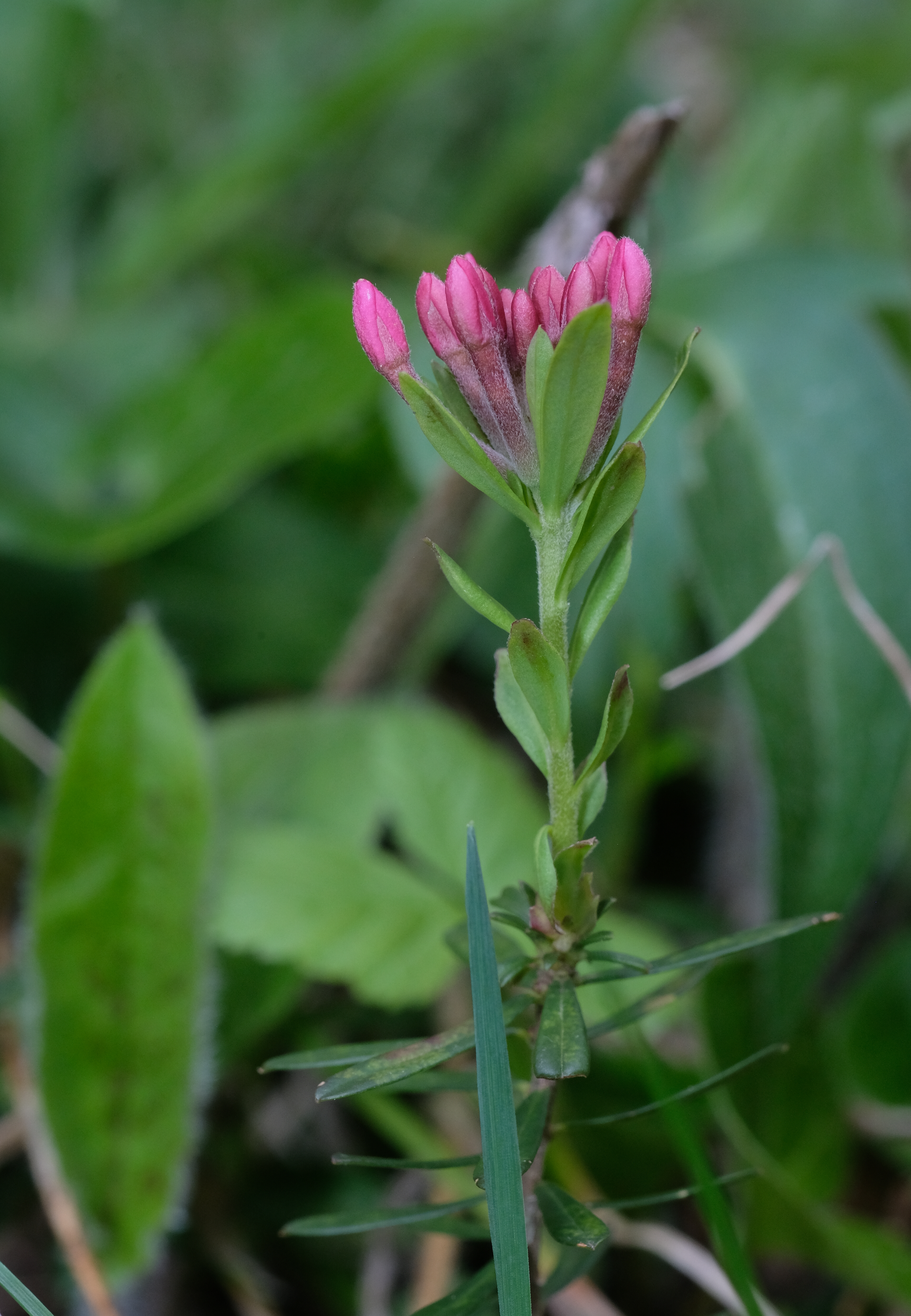 Garland flower (Daphne cneorum), nature reserve Schopfeln-Rehletal (WDPA-ID 555546331), Immendingen-Hattingen, district Tuttlingen, Baden-Württemberg, Germany